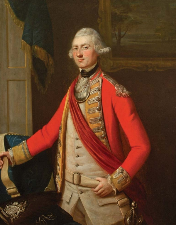 Caption from the museum's website Lt. John Ross of the 34th Regiment was a distinguished member of the British Army. After the final campaigns of the French and Indian War, he explored and mapped the Mississippi Valley before rotating back to Great Britain with his regiment in the later 1760s. Ross returned to America in 1776 and participated in a number of battles in the North. This portrait, attributed to Scottish-born artist David Martin c. 1769, depicts Ross after his first American tour of duty.